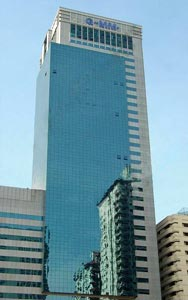 GMMGRAMMYPLACE